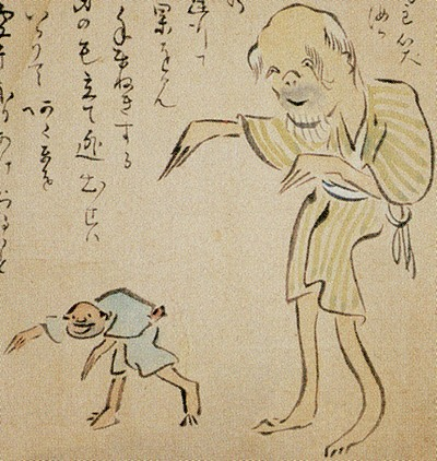 Ōbōzu from Bakemono Emaki